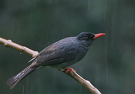 This bird was bathing in a heavy downpour in the rain forest of Sinharaja, Sri Lanka.